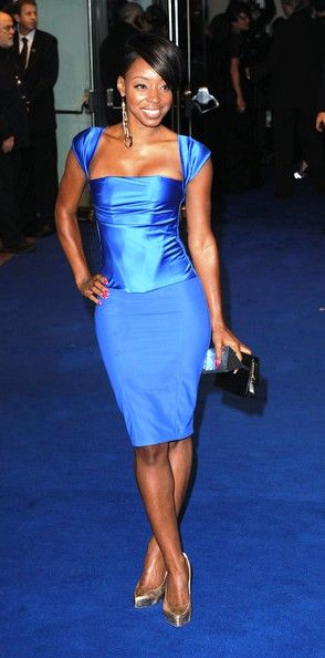 Avator world primere